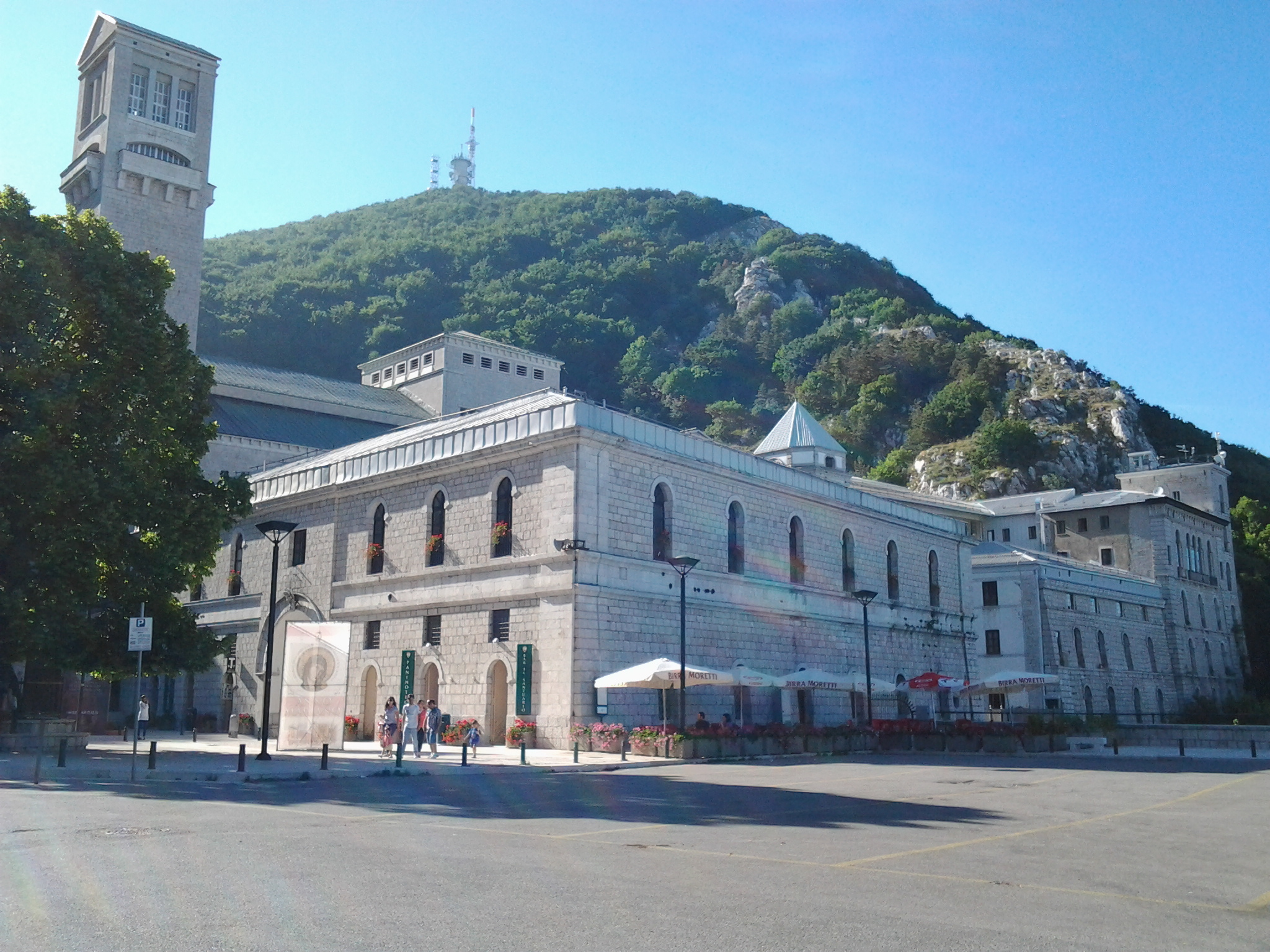 Veduta del complesso abbaziale di Montevergine